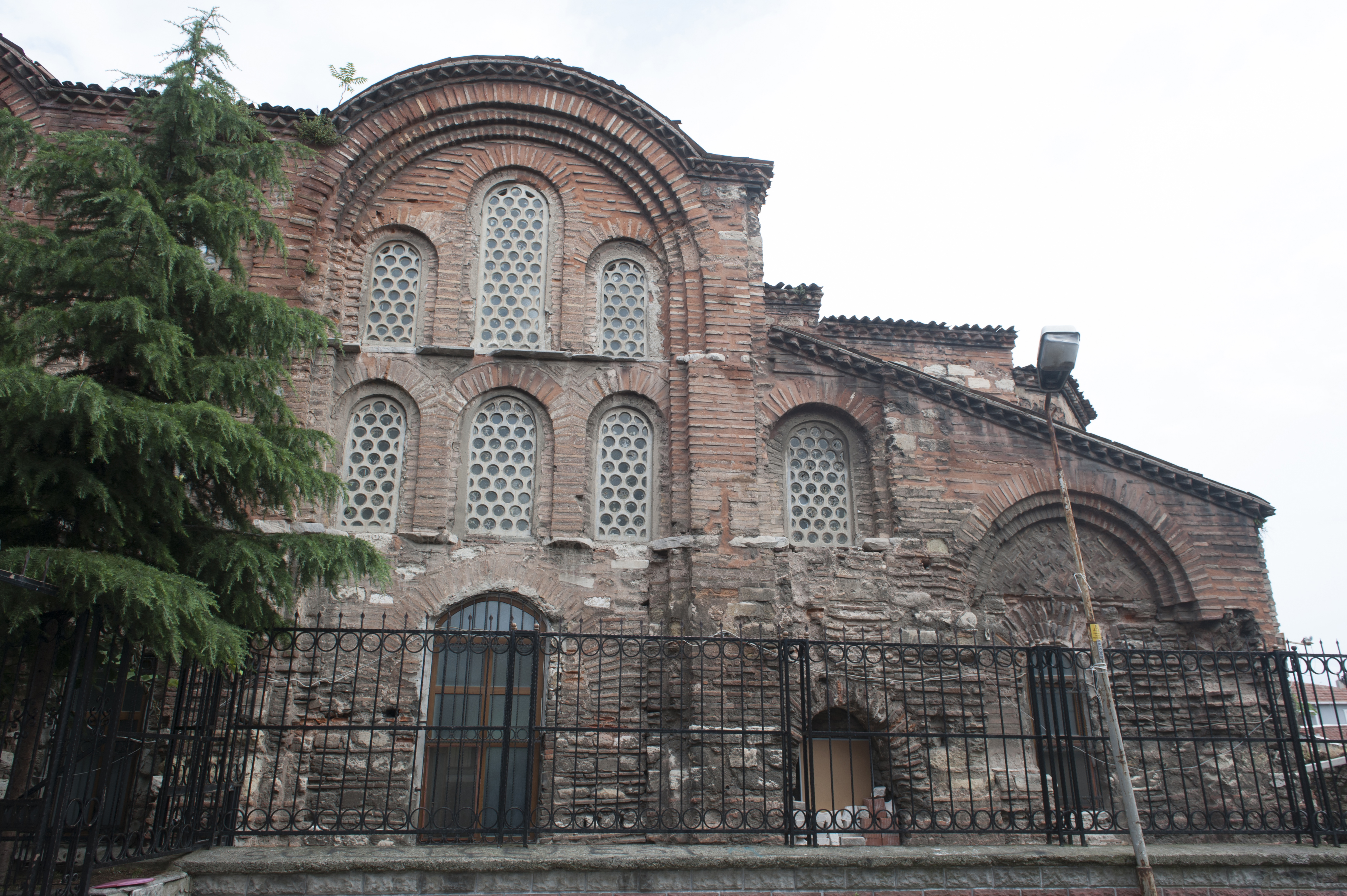 The Eski Imaret Mosque, which is the former Church of St. Saviour Pantepoptes, Christ the all-seeing. It was founded in 1085-90 by the Empress Anna Delassena, mother of Emperor Alexius Comnenus, founder of the Comneni dynasty, which was to reign Byzantium in the 11-12th centuries. Anna ruled as Co-Emperor with her son for nearly 20 years and had a great influence. In 1100 she retired to the convent of the Pantepoptes, where she died in 1105 and was buried in the church she founded. I quote from the Strolling through Istanbul guide, which continues describing the “sad state of dilapidation” of the church, now mosque. Or rather: it mentions this is now a Koran School. And that is why this gallery is curious: when I visited with Byzantine specialist Raffaele D’Amato we were first forbidden to take pictures, because the Koran School was running. The central space was filled with groups of children who were memorizing the Koran, and it was forbidden to take pictures. After some negotiating we were allowed to take pictures of the building elements, and for Raffaele this was the main point, because much of the interior had been changed in Turkish times, but things like doorframes and decorations were still obviously Byzantine.